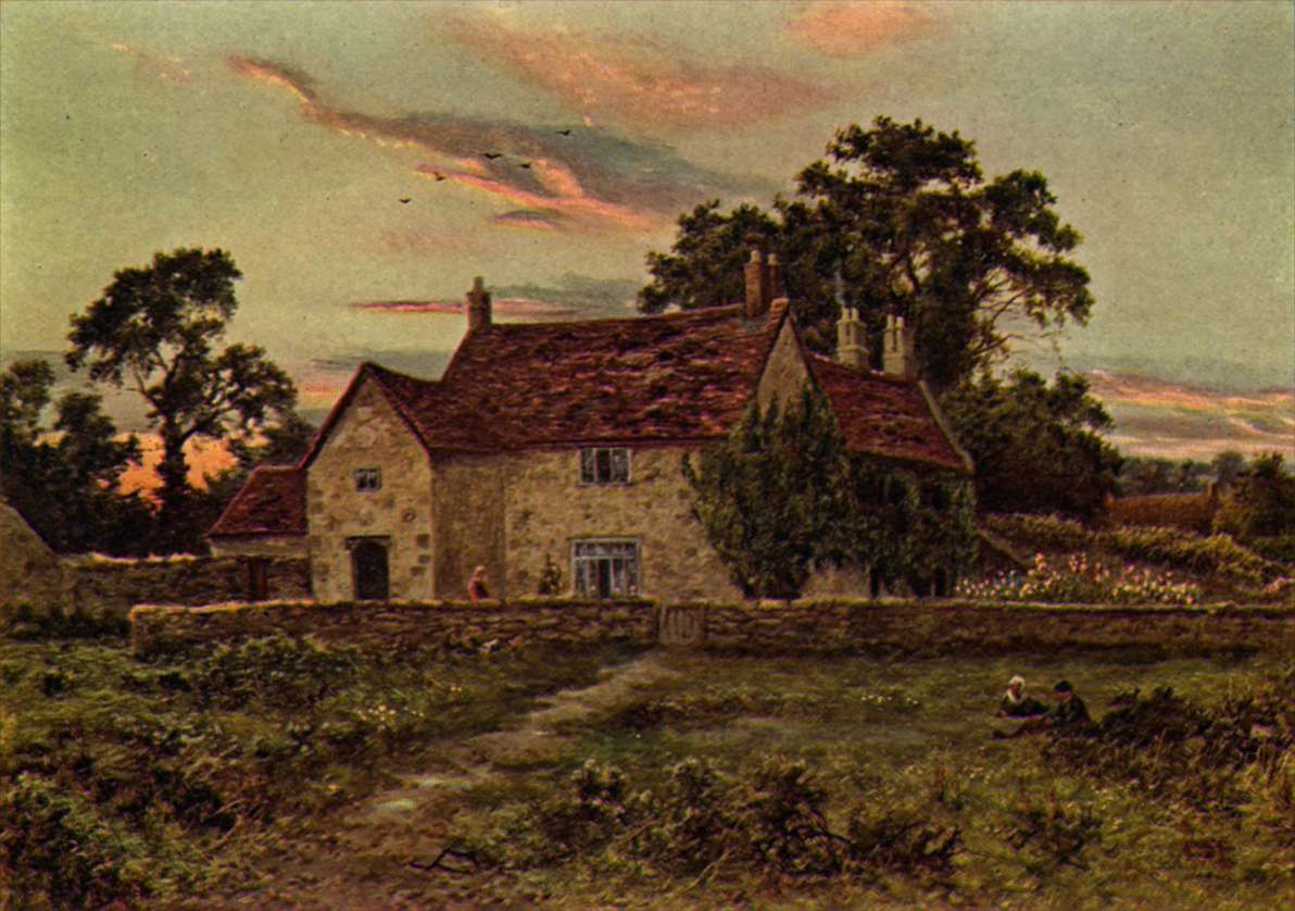 Sulgrave Manor, The Cradle of the Washingtons.